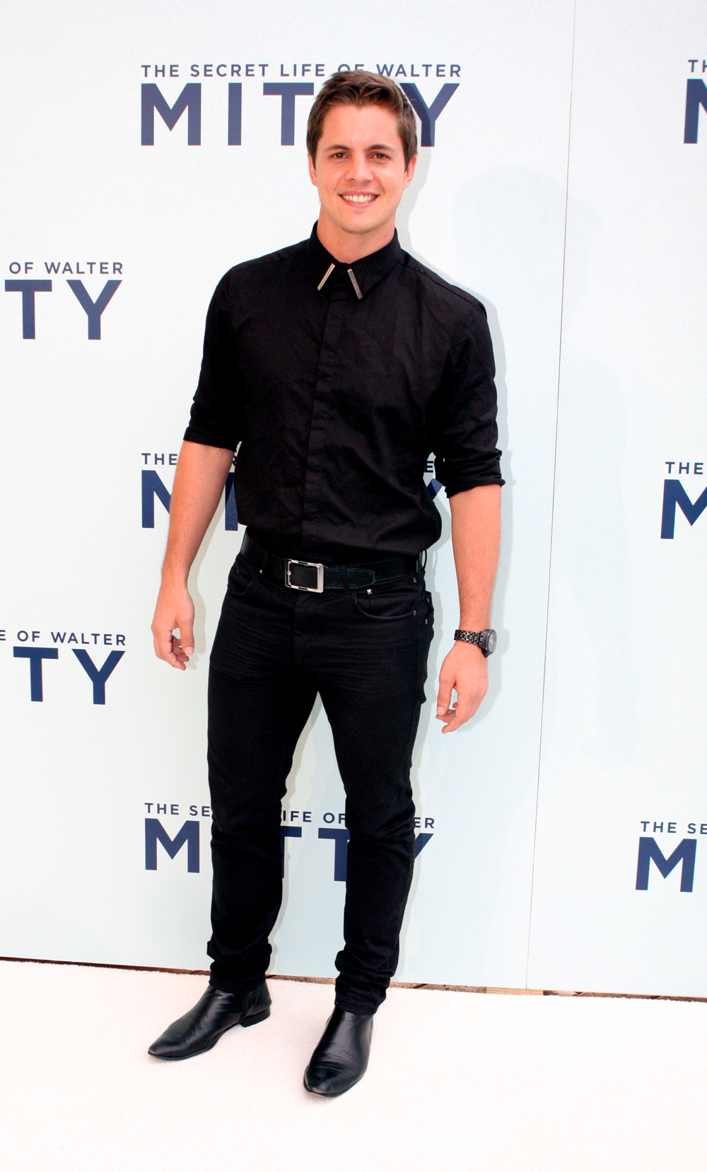 The Secret Life Of Walter Mitty Premiere in Sydney, Australia